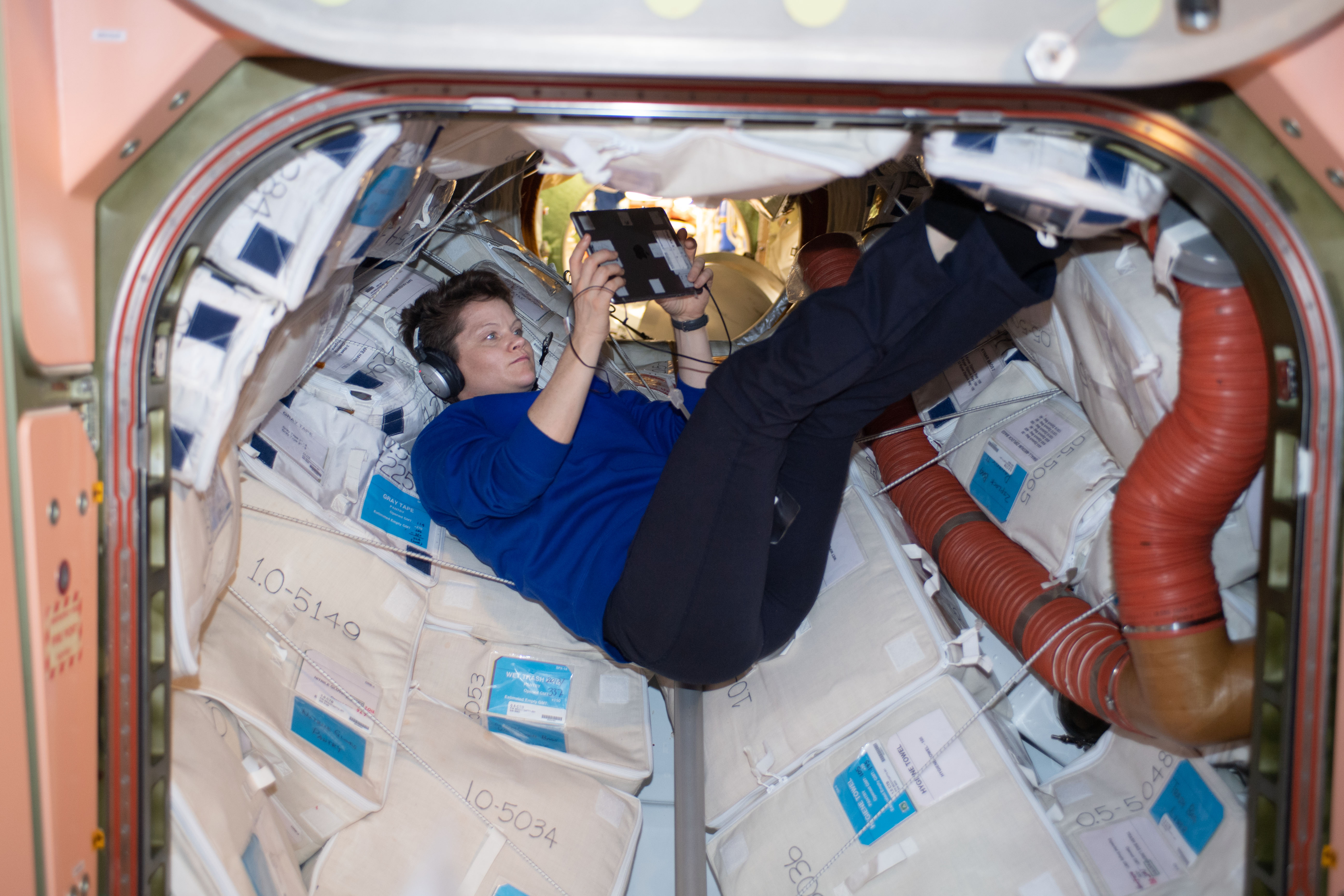 NASA astronaut Anne McClain relaxes with an electronic tablet on a Sunday morning inside the vestibule that connects the Unity module to the Zarya module.